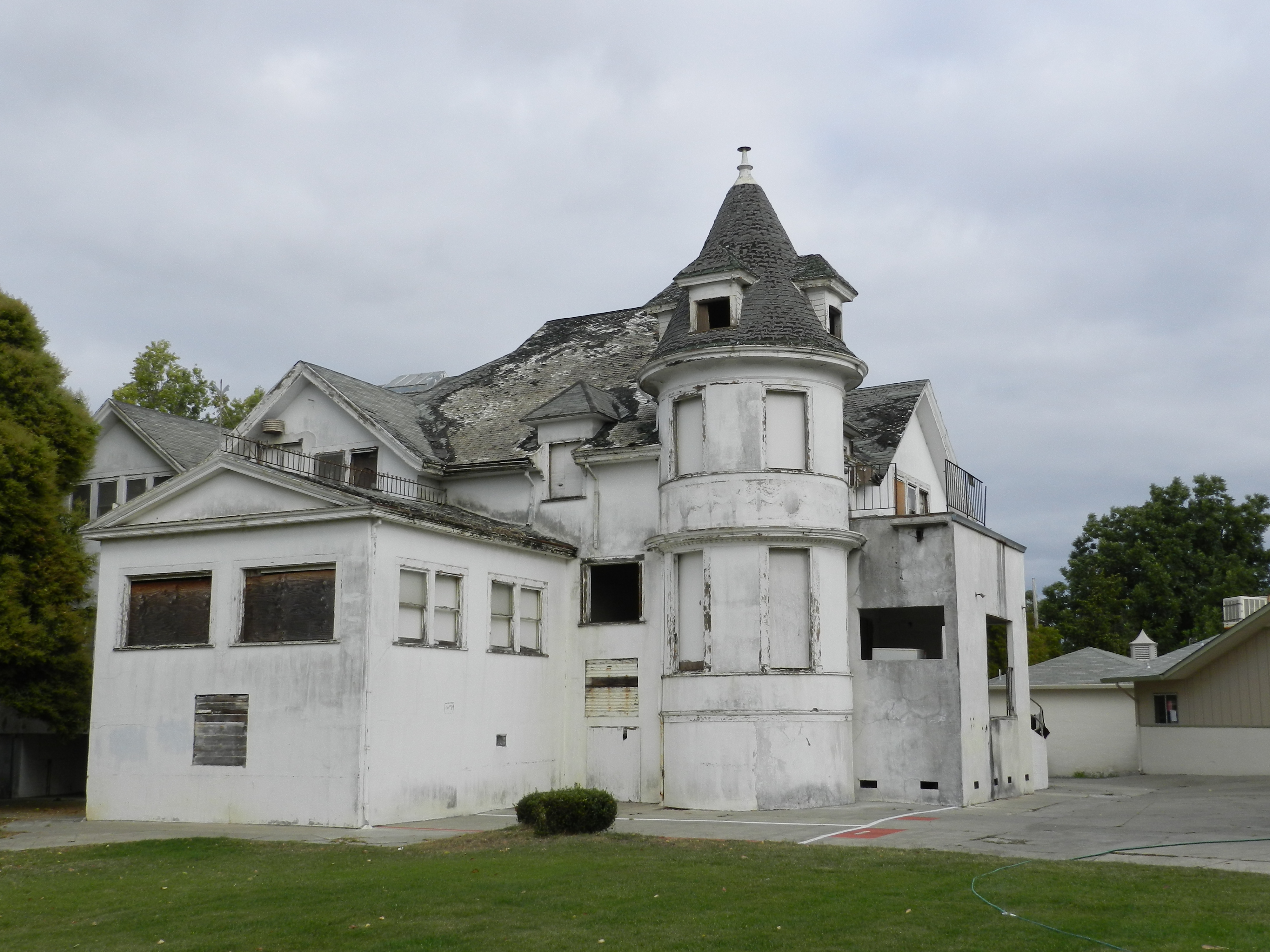 Historic Hermann Mohr home (in disrepair), Depot Road, near Mount Eden Cemetery and Chabot College, Hayward, California.[1]